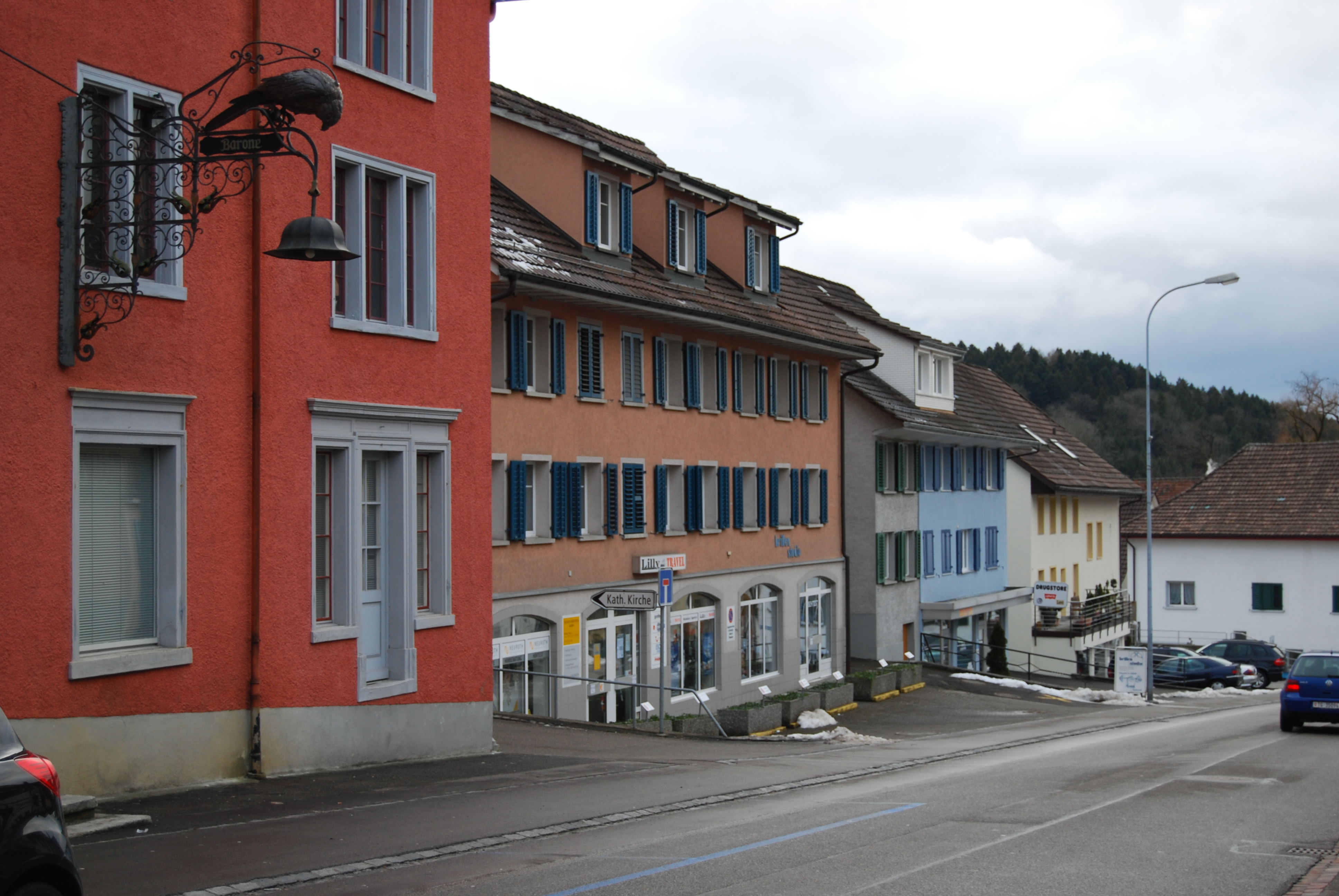 Mainstreet of Aadorf, canton of Thurgovia, SwitzerlandEsperanto: Ĉefstrato de Aadorf, Kantono Turgovio, Svislando